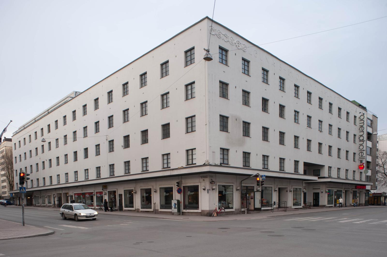 Southwestern Finland Agricultural Cooperative Building deisgned by Alvar Aalto in Turku, Finland